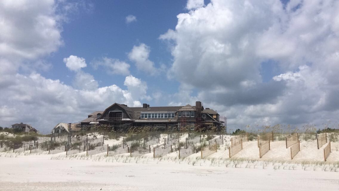 Housing development